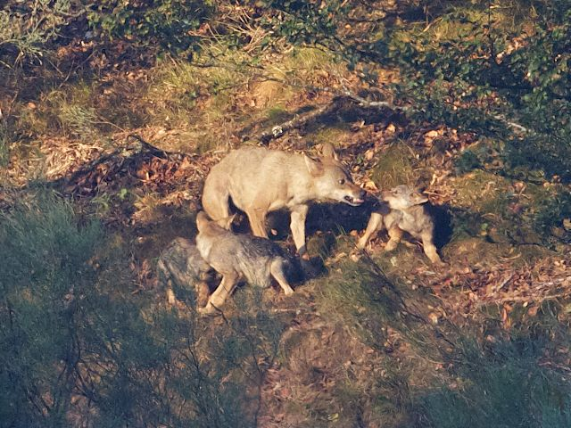 Iberian Wolf pups stimulating the alpha female to regurgitate some meat 1